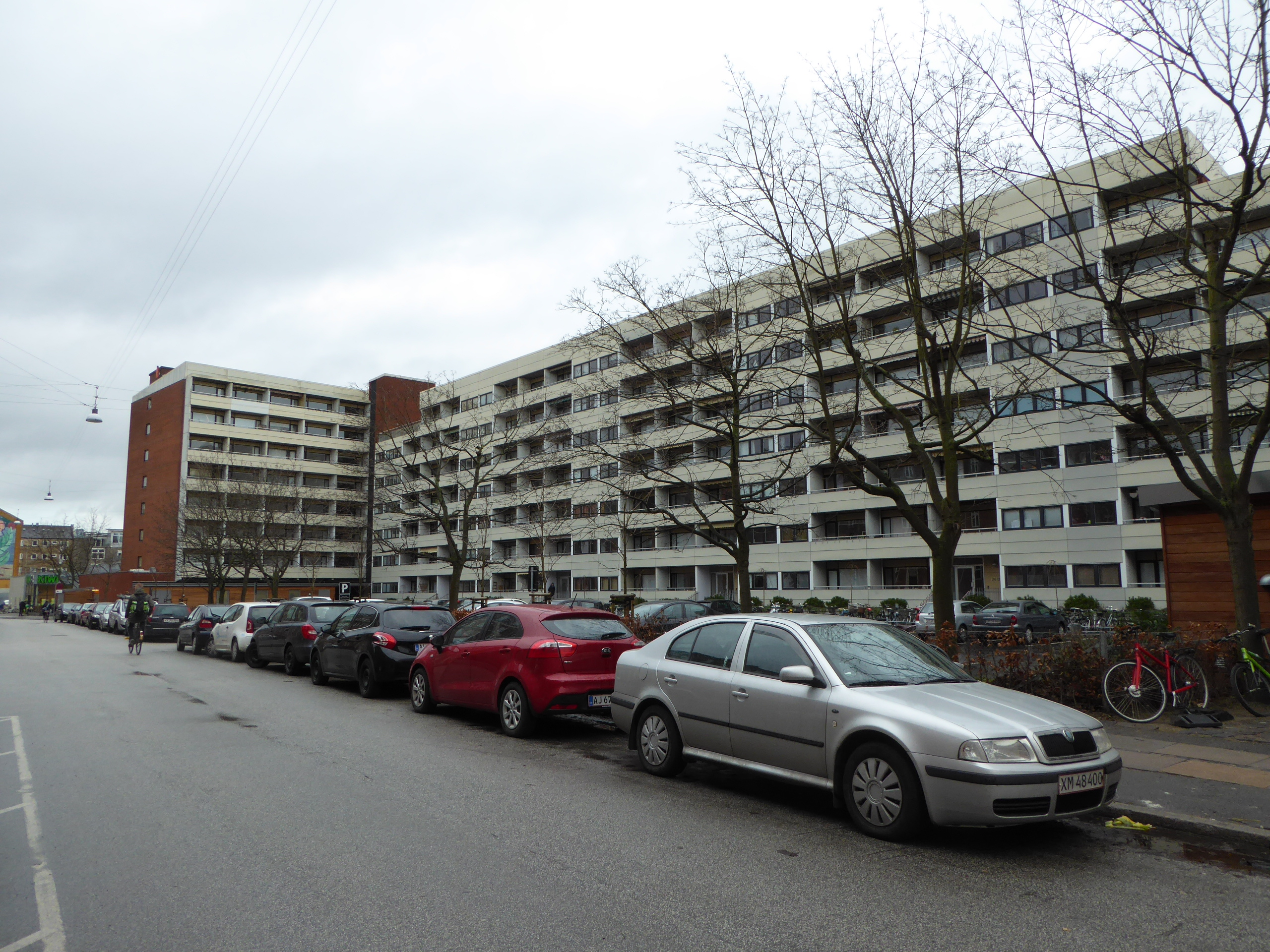 The building Drejøgården at Drejøgade in Østerbro in Copenhagen.